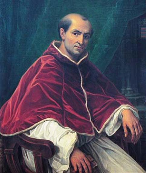 portrait of pope Clement V